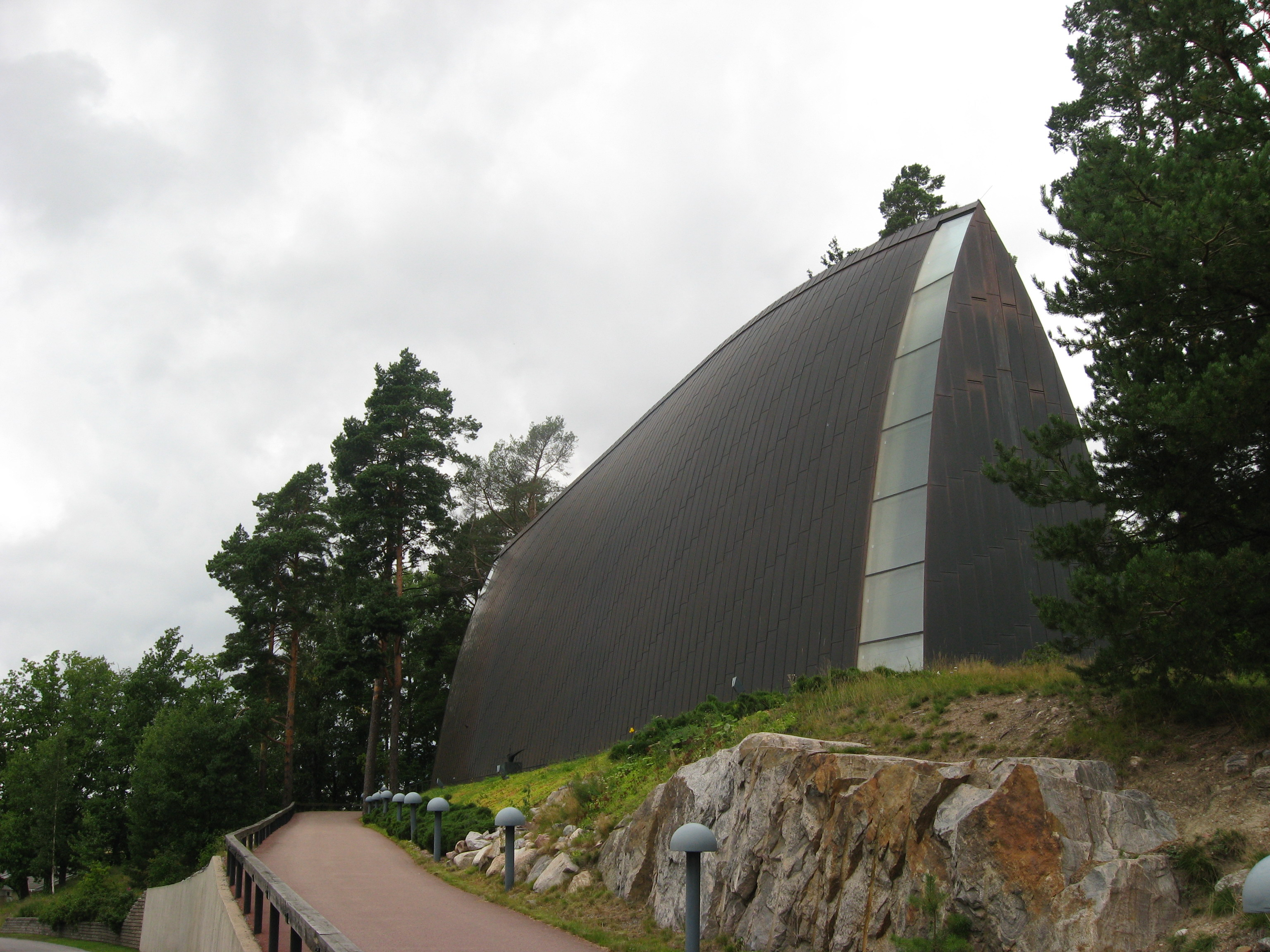 The Ecumenical Art Chapel of St. Henry, Hirvensalo, Turku, Finland. General view.